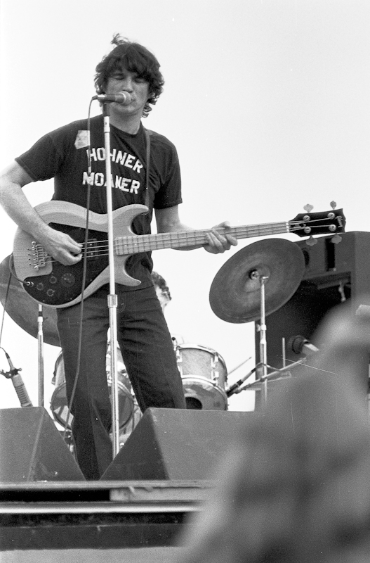 Woodstock Reunion, Parr Meadows, Ridge, NY